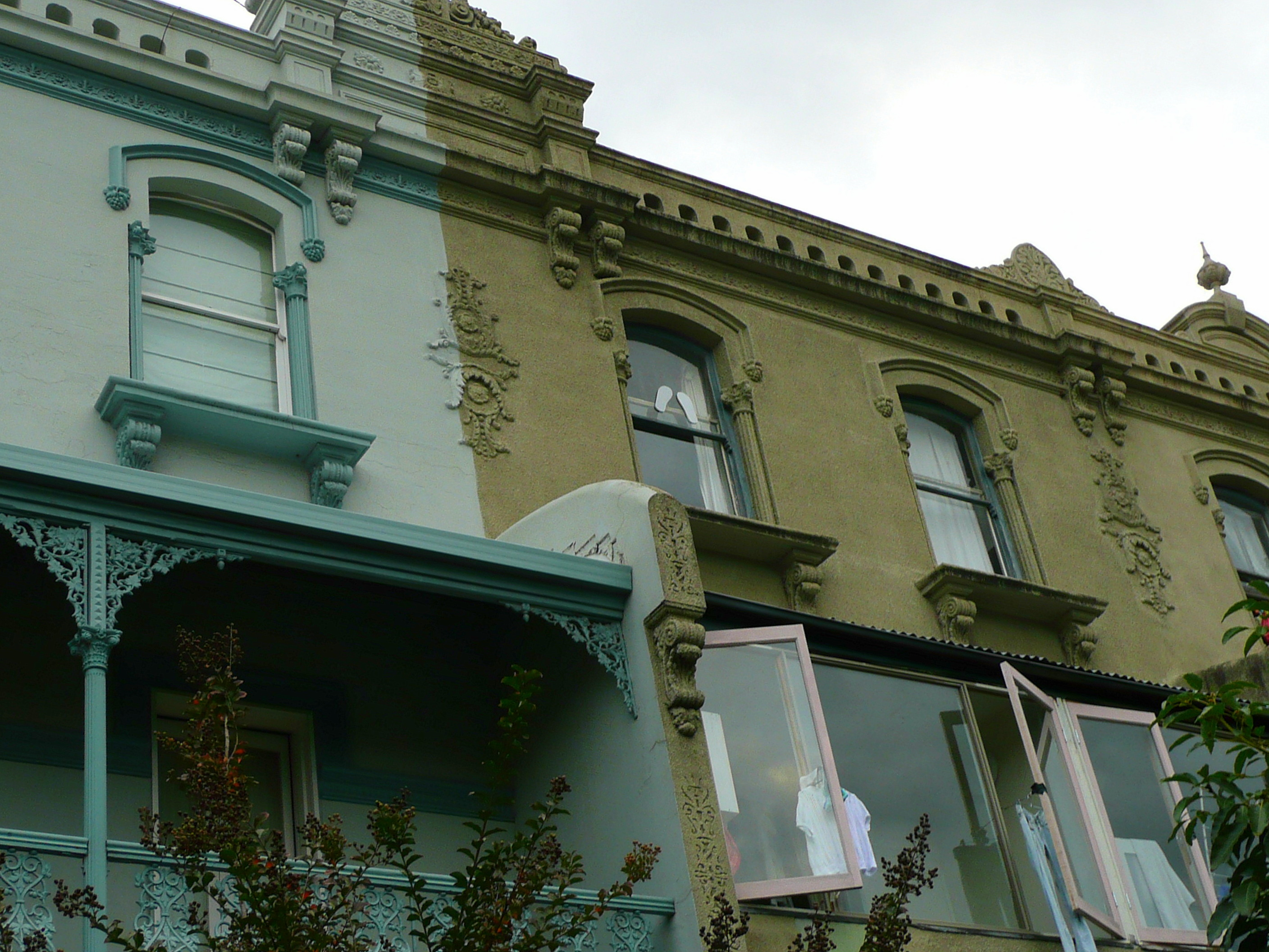 home, Woollahra, Sydney